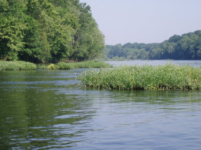 Typical Habitat of American Water Willow (Justicia americana) on the Coosa River near Wetumpka, Alabama.